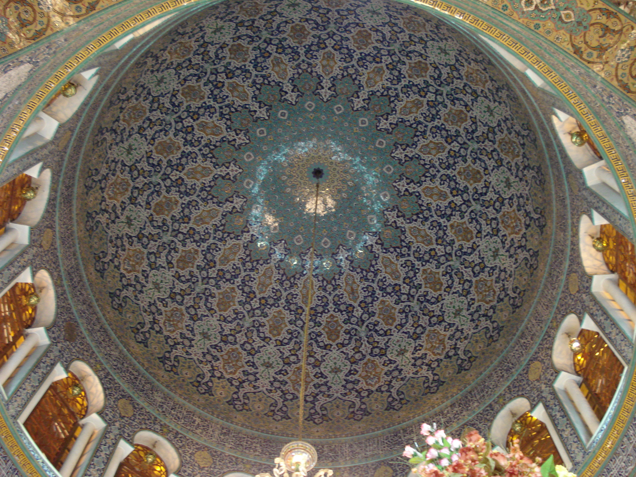 Dome of Sayyidah Zaynab Mosque—shrine in southern Damascus, Syria